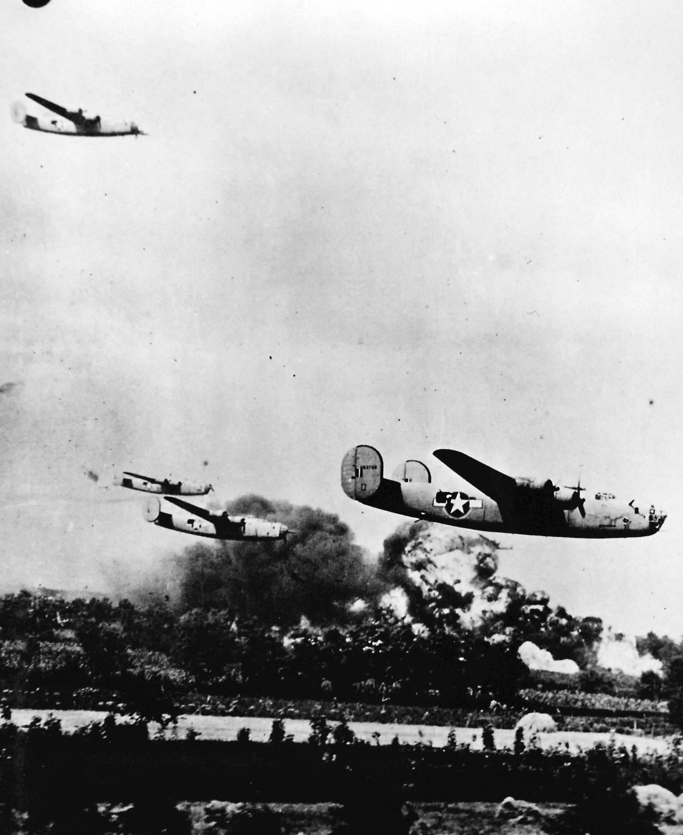 B-24 Liberators at low altitude while approaching the oil refineries at Ploesti, Romania, August 1, 1943. In the foreground is B-24D Li’l Jughaid, serial number 42-63758, Ninth Air Force, 98th Bombardment Group, 415th Bombardment Squadron. Pilot Lyle Spencer, co-pilot Harry J. Baker, bombardier Boyden Supiani. Photograph was taken from the 98th’s lead plane, piloted by Col. John R. Kane. Following in formation behind Li’l Jughaid is Daisy Mae, and Black Magic.